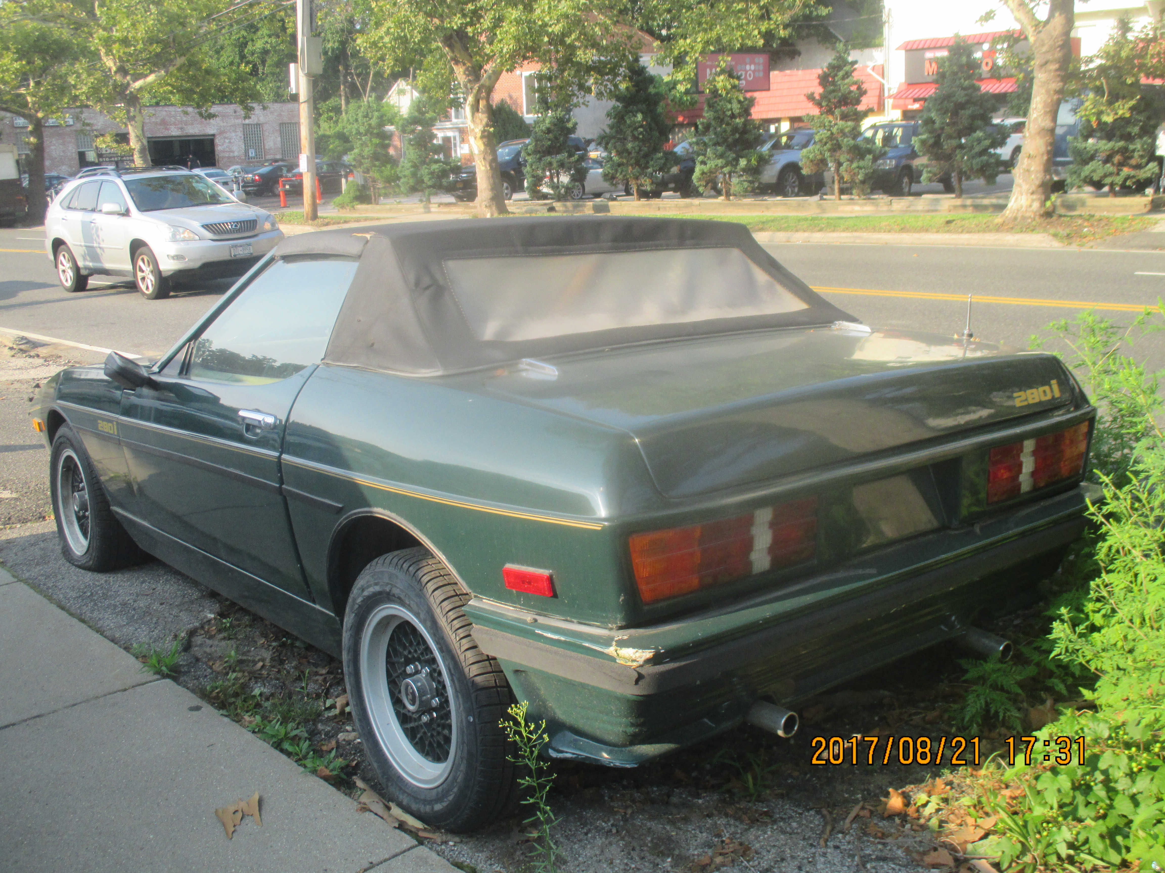 Abandoned TVR in NY rear